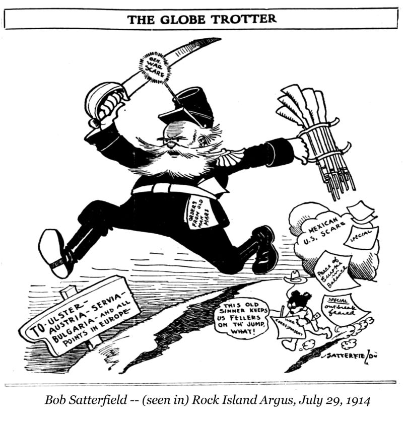 in the wake of the assassination of Archduke Franz Ferdinand of Austria, Satterfield depicts "General War Scare" leaving the United States for Europe, with a sword in one hand, a satchel of rifles in the other, and orders from "Old Man Mars" tucked under his belt.